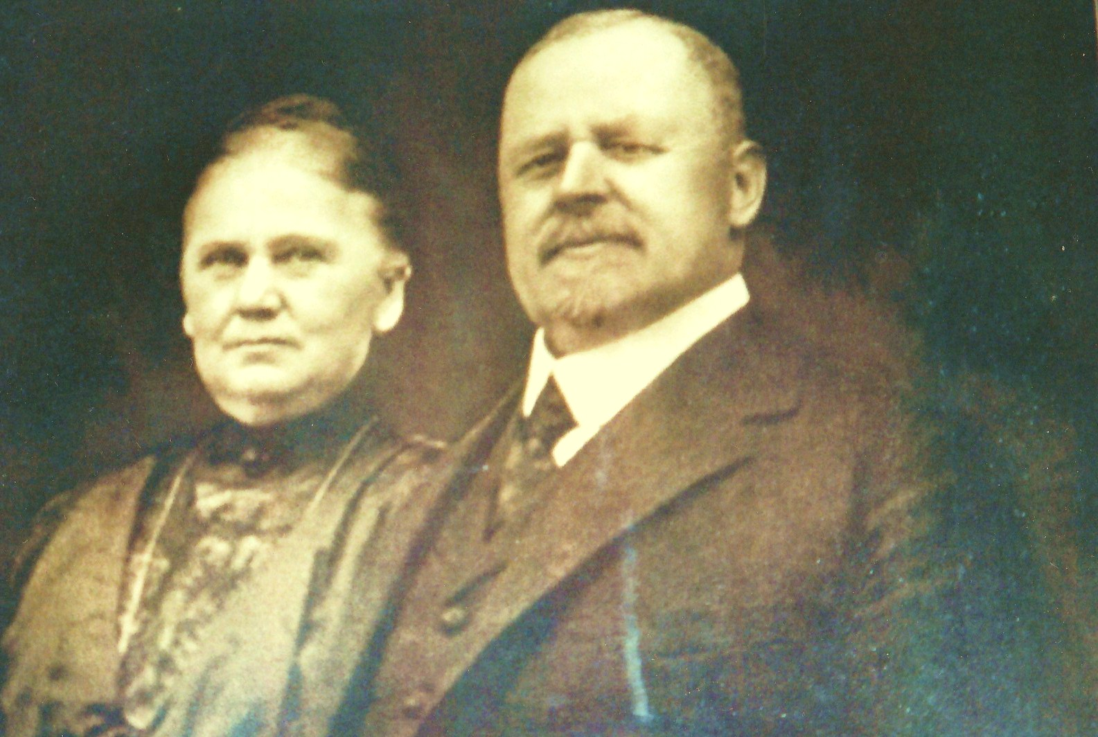 Luise, born Krauss, daughter of a furnish-manufacturer in Aalen, with her husband Hakenmüller, founder in 1887 of the textile-enterprise J. Hakenmüller in D-72461 Albstadt-Tailfingen, Western-Germany.